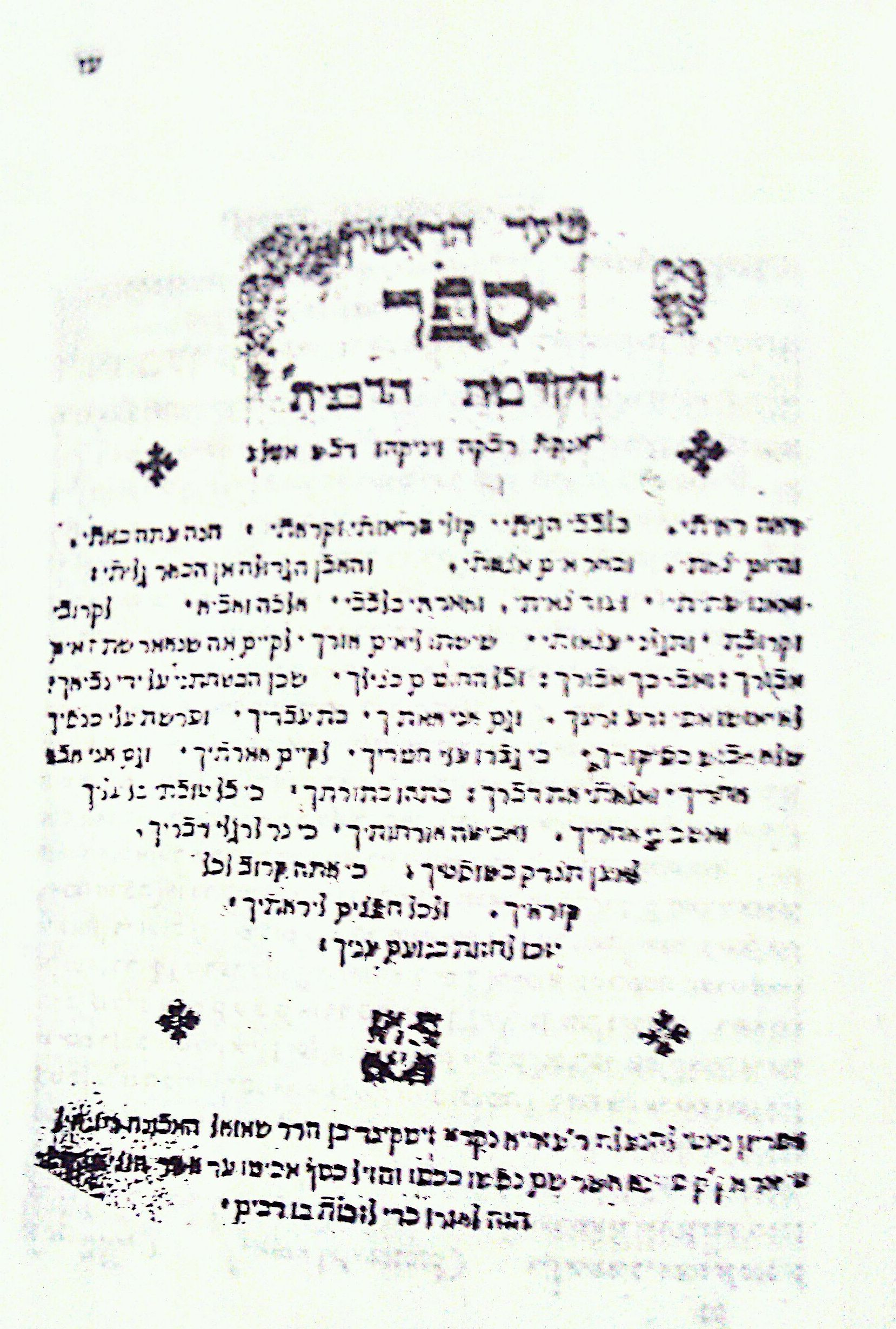 Rivka Titiner's title page of her book Meneket Rivka. Prague 1609